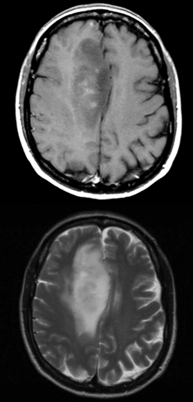 Axial magnetic resonance images of the brain. T1-weighted postcontrast (top) and T2-weighted (bottom) images shown. There is a large tumor in the frontal lobe which shows sparse enhancement. The tumor and surrounding edema are bright on the T2-weighted images.